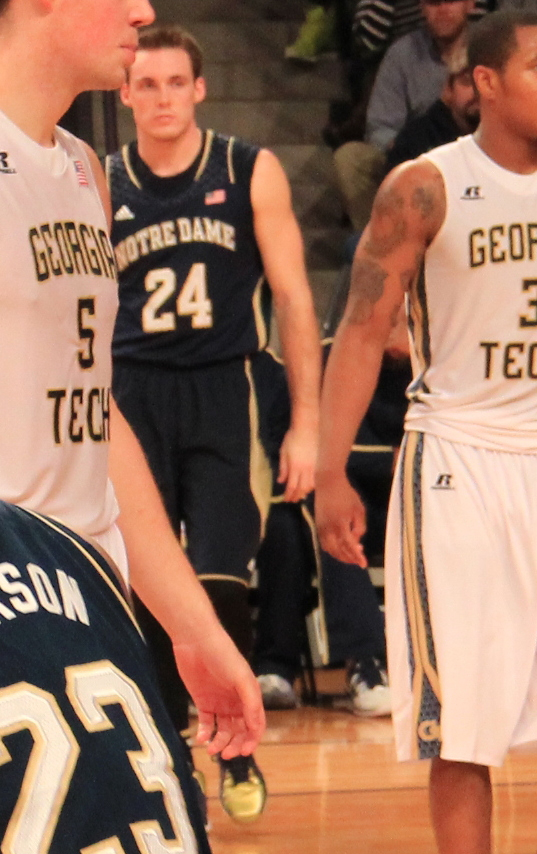 Pat Connaughton against Georgia Tech.